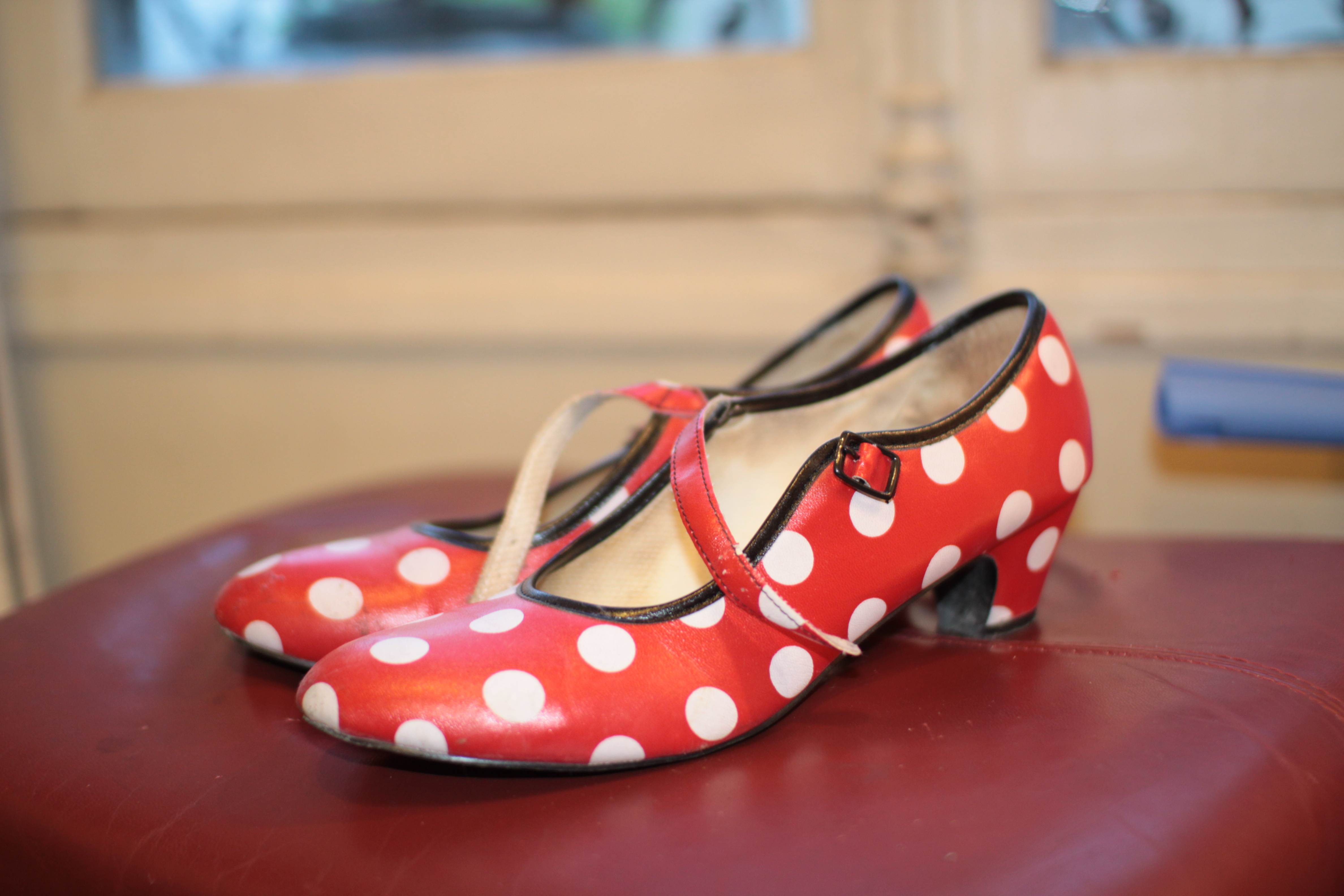 Red polka dot pumps